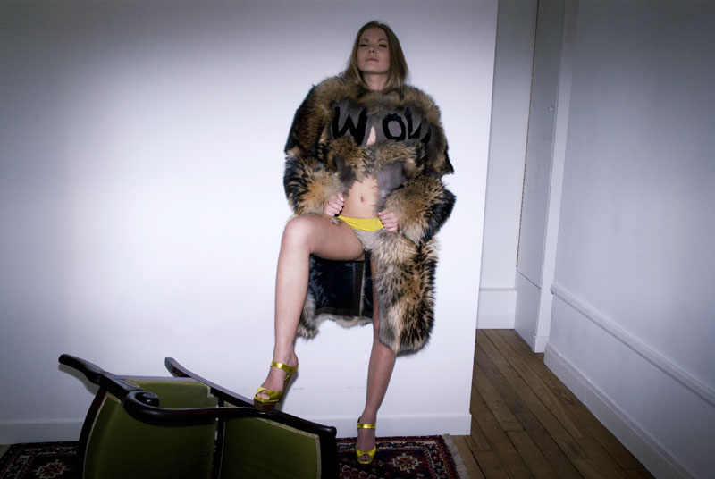 Jolanta, model from Mademoiselle Agency, wearing a Viktor & Rolf coat from fall winter collection 2008.